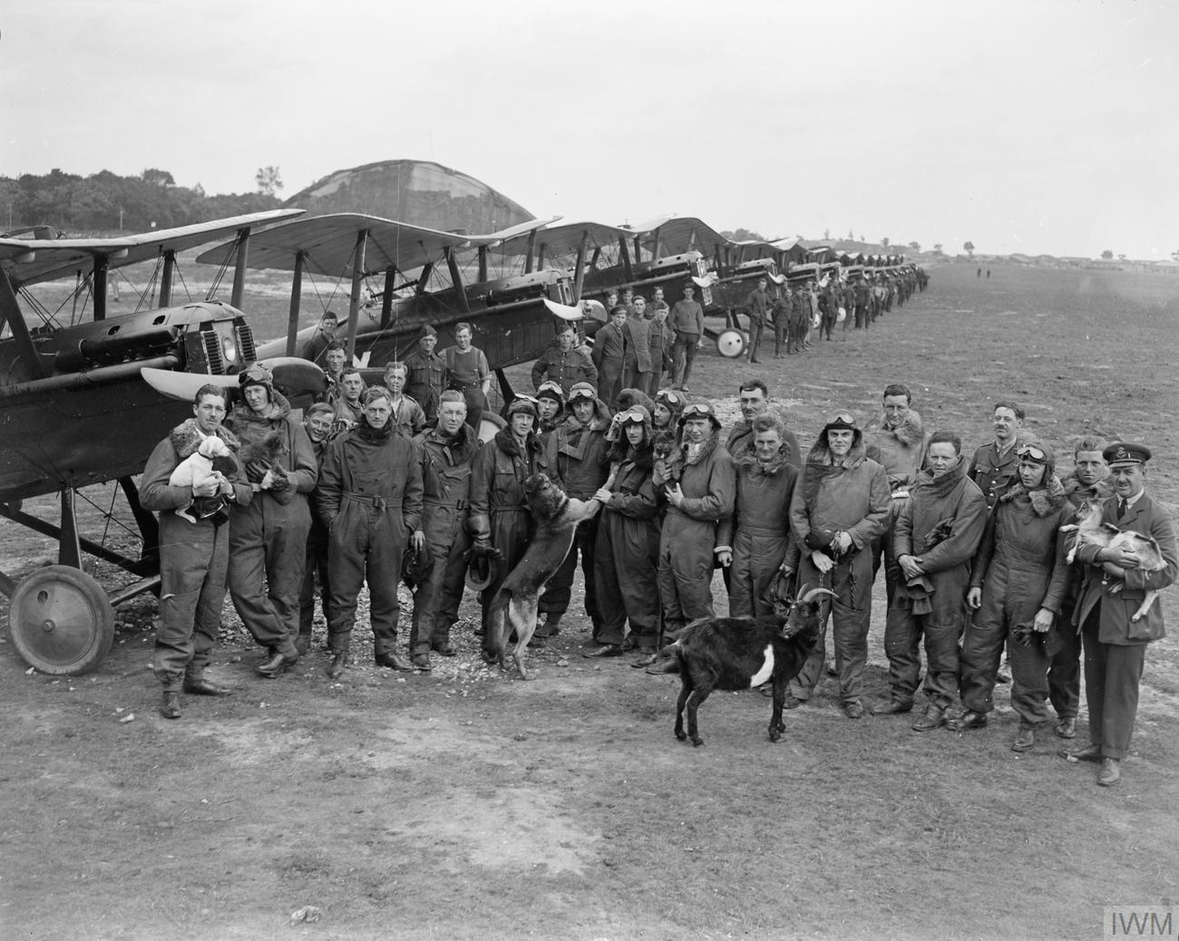 The Royal Flying Corps on the Western Front, 1914-1918 The officers of No. 85 Squadron, including Major Mannock, in front of their Royal Aircraft Factory S.E.5a scouts at St Omer aerodrome, 21 June 1918.